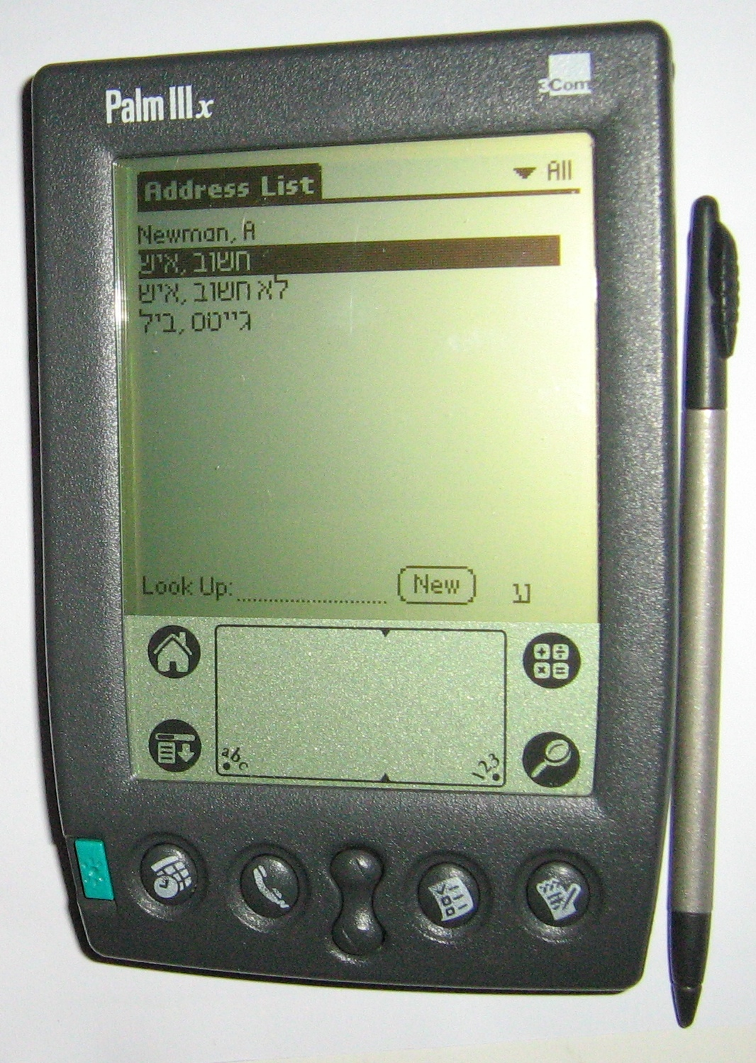 Palm IIIx, with Hebrew support installed.